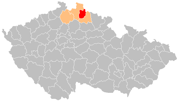 District of Jablonec nad Nisou